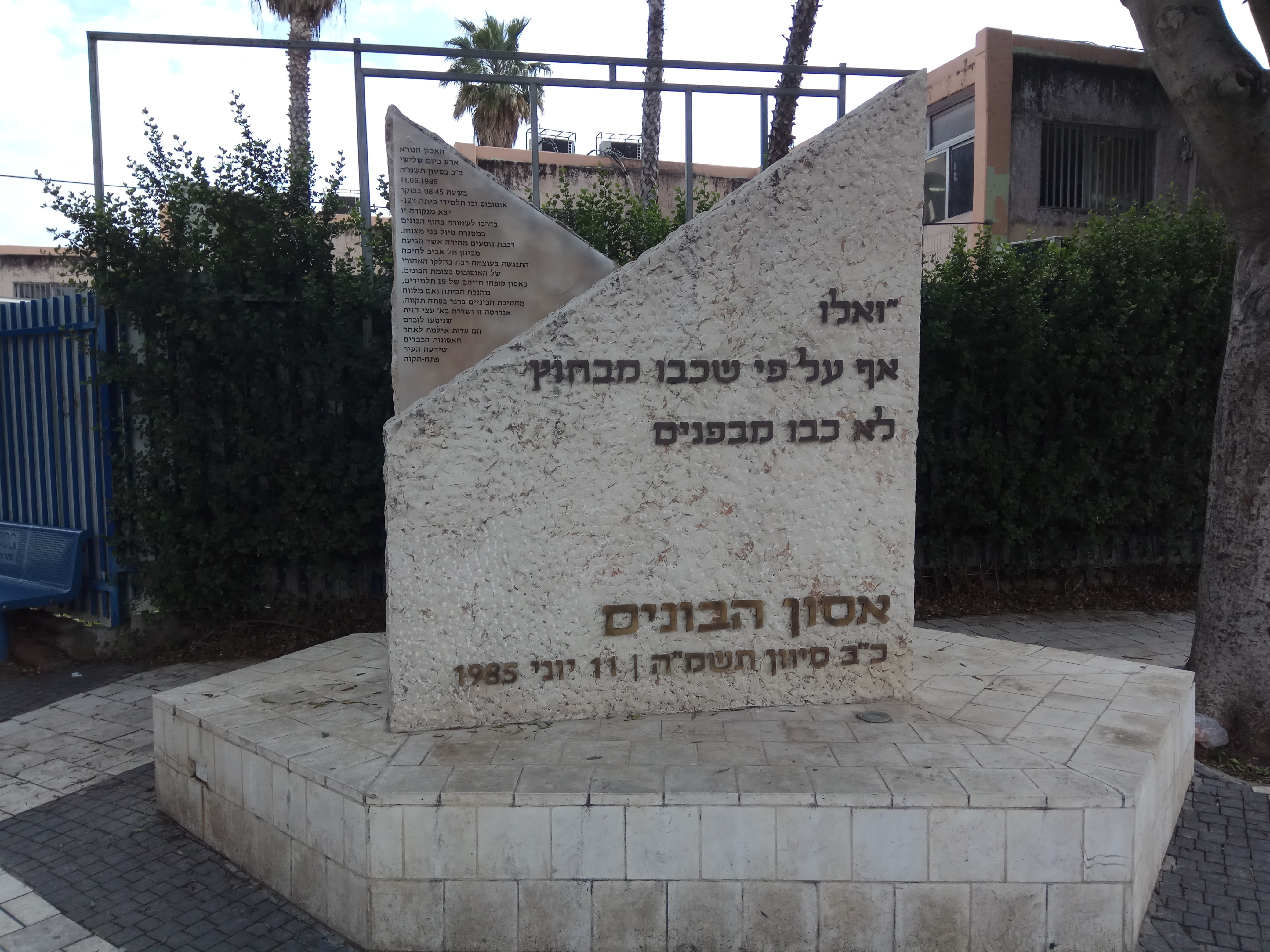 Monument to the Habonim disaster in Petach Tikva